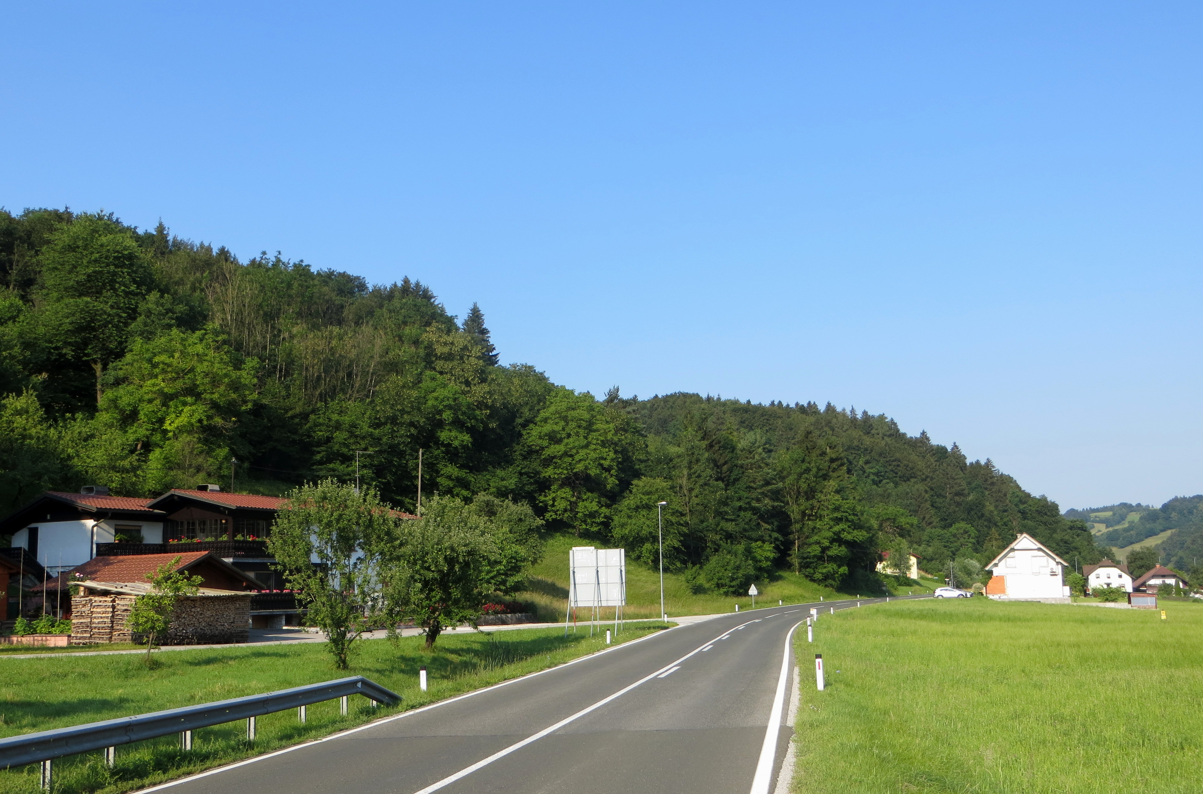 Podsmrečje, Municipality of Lukovica, Slovenia